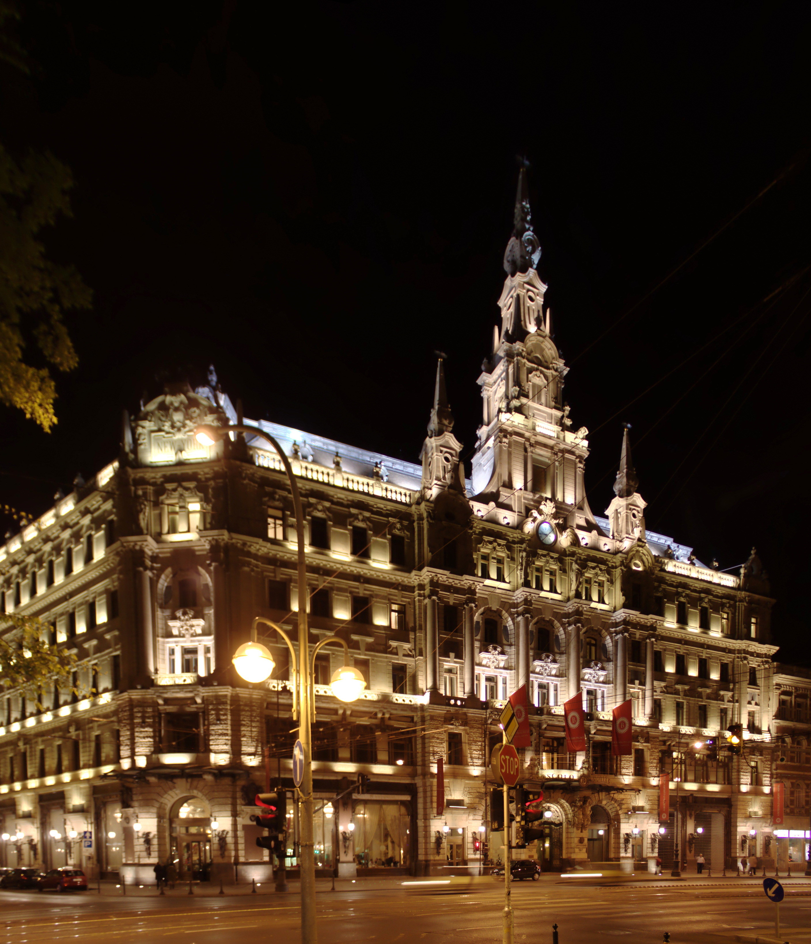 Enlited facade of the Boscolo hotel located in Erzsebetváros in Budapest, Hungary